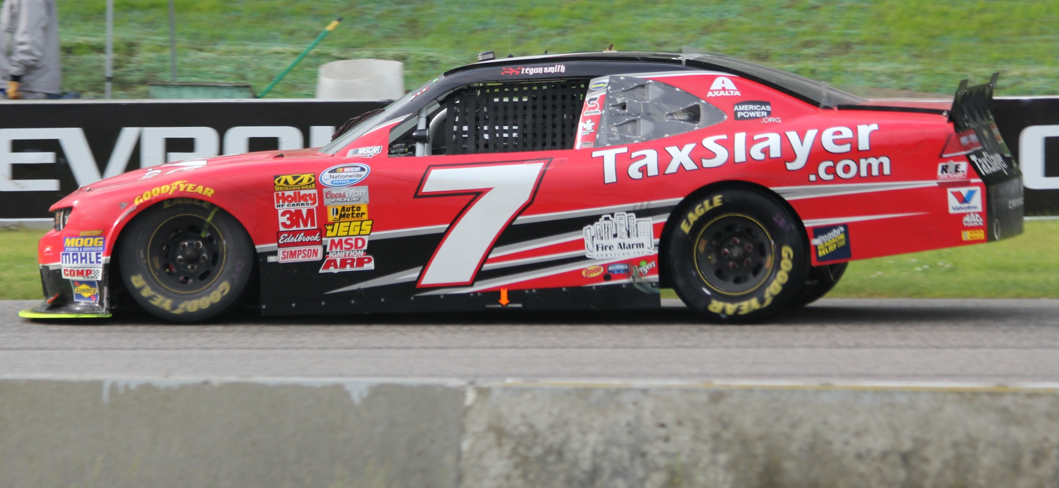 The drivers side of Regan Smith Nationwide car during the 2014 Gardner Denver 200 at Road America. Taken racing up the hill between turns 5 and 6.